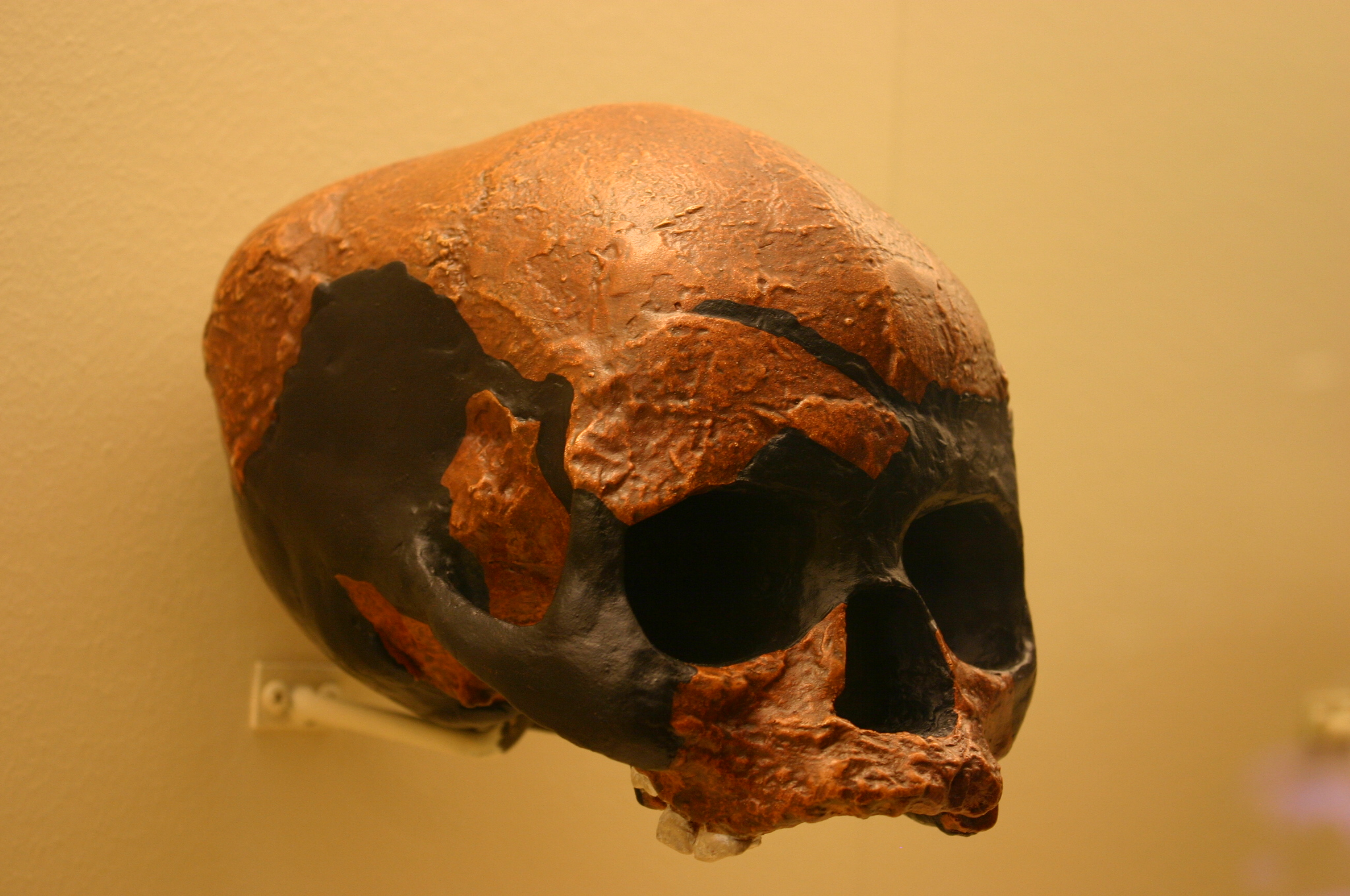 Taken at the David H. Koch Hall of Human Origins at the Smithsonian Natural History Museum.